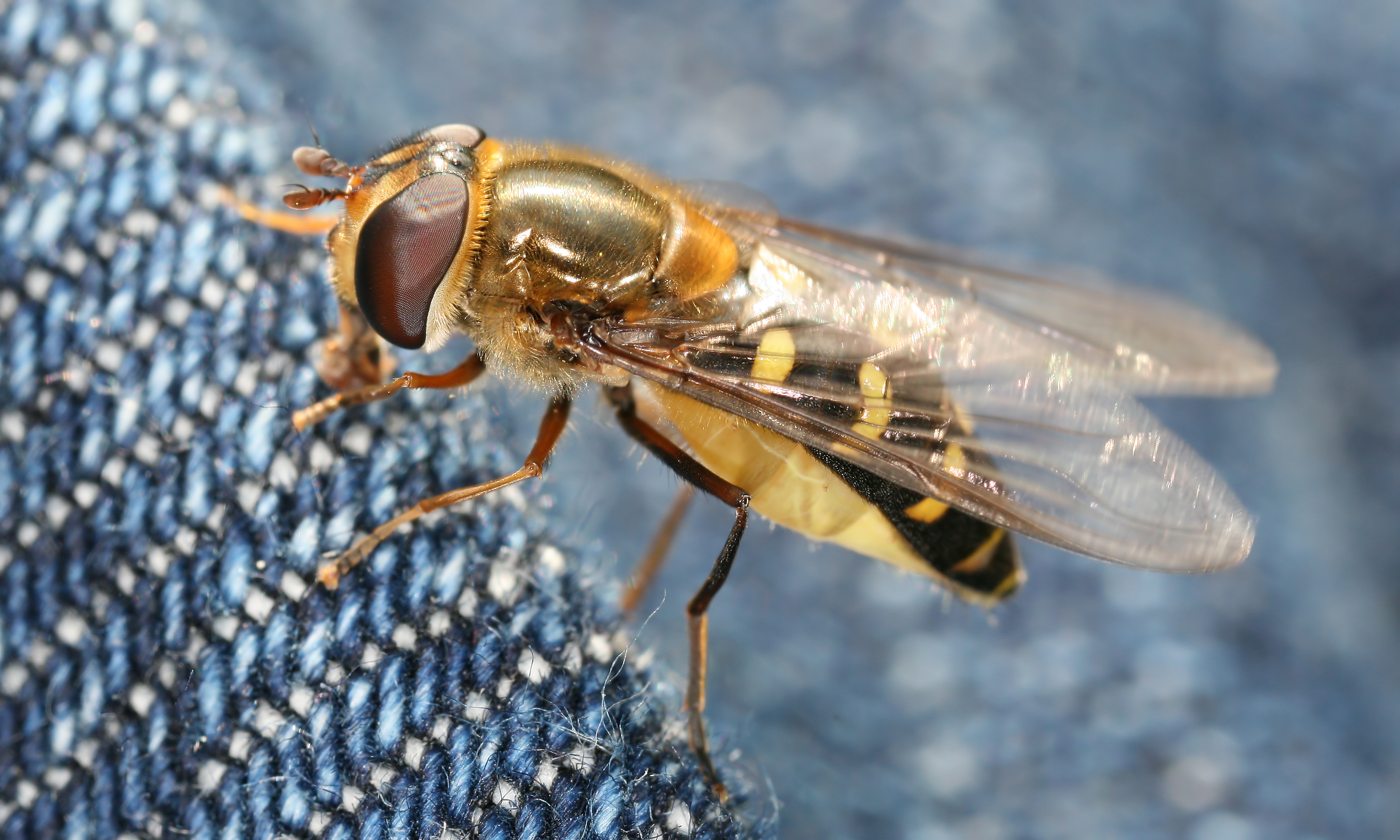 This image shows a 10 mm large marmelade fly (Eupeodes lapponicus) or (hoverfly) from the side.